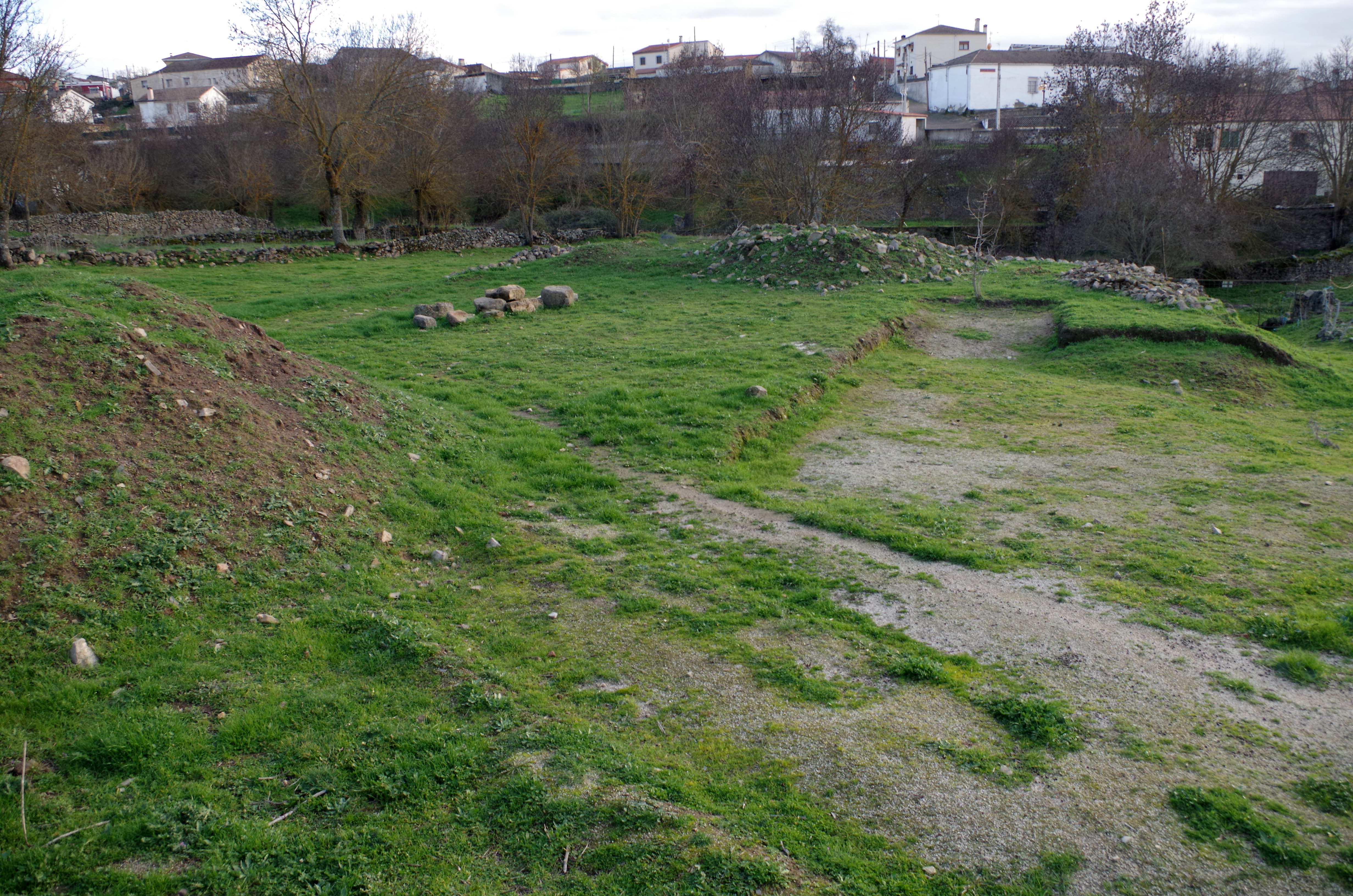 Site of the Roman archaeological remains in Saelices el Chico. Salamanca, Spain.